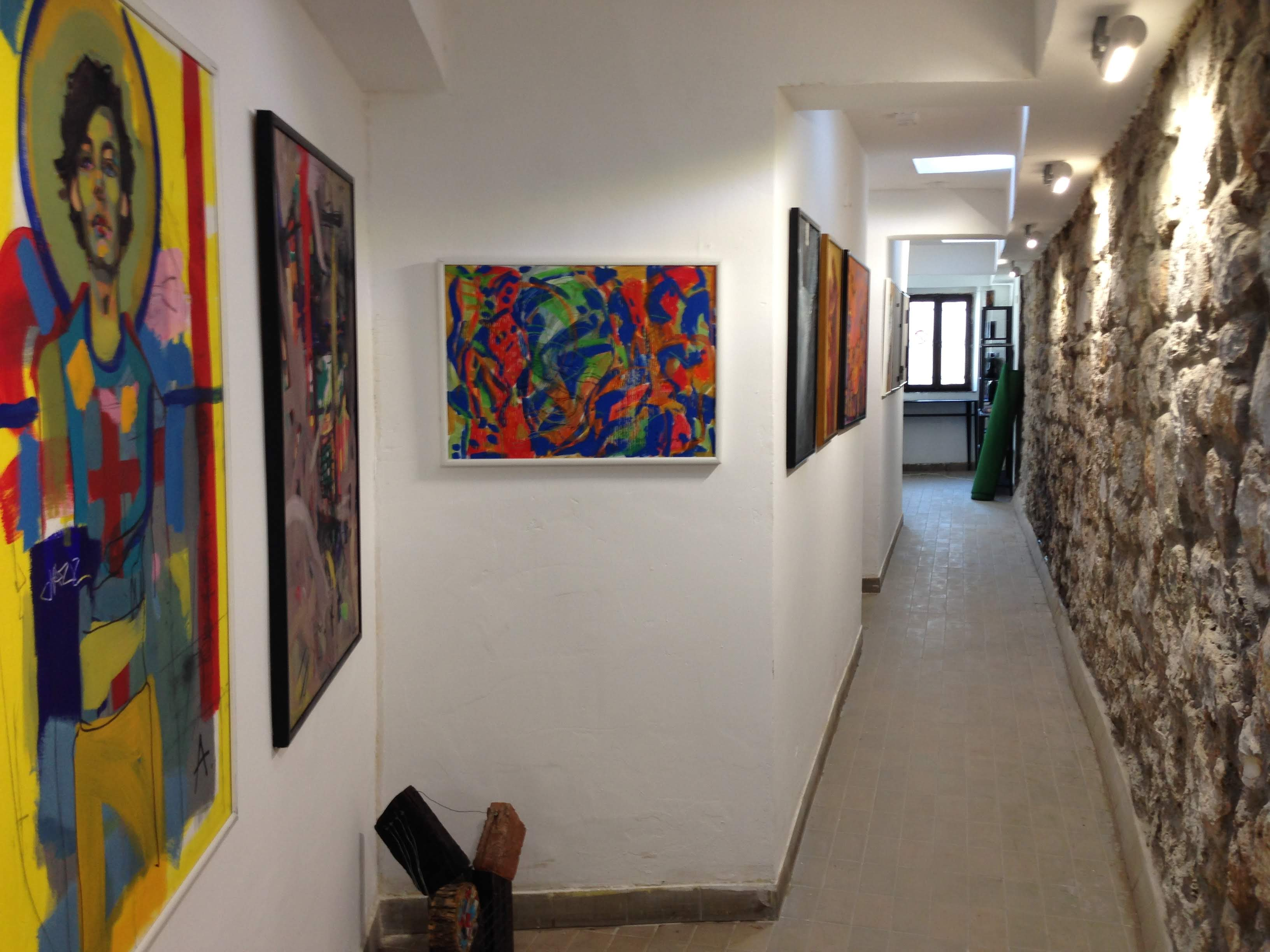 The interior of the Nisville Jazz Museum